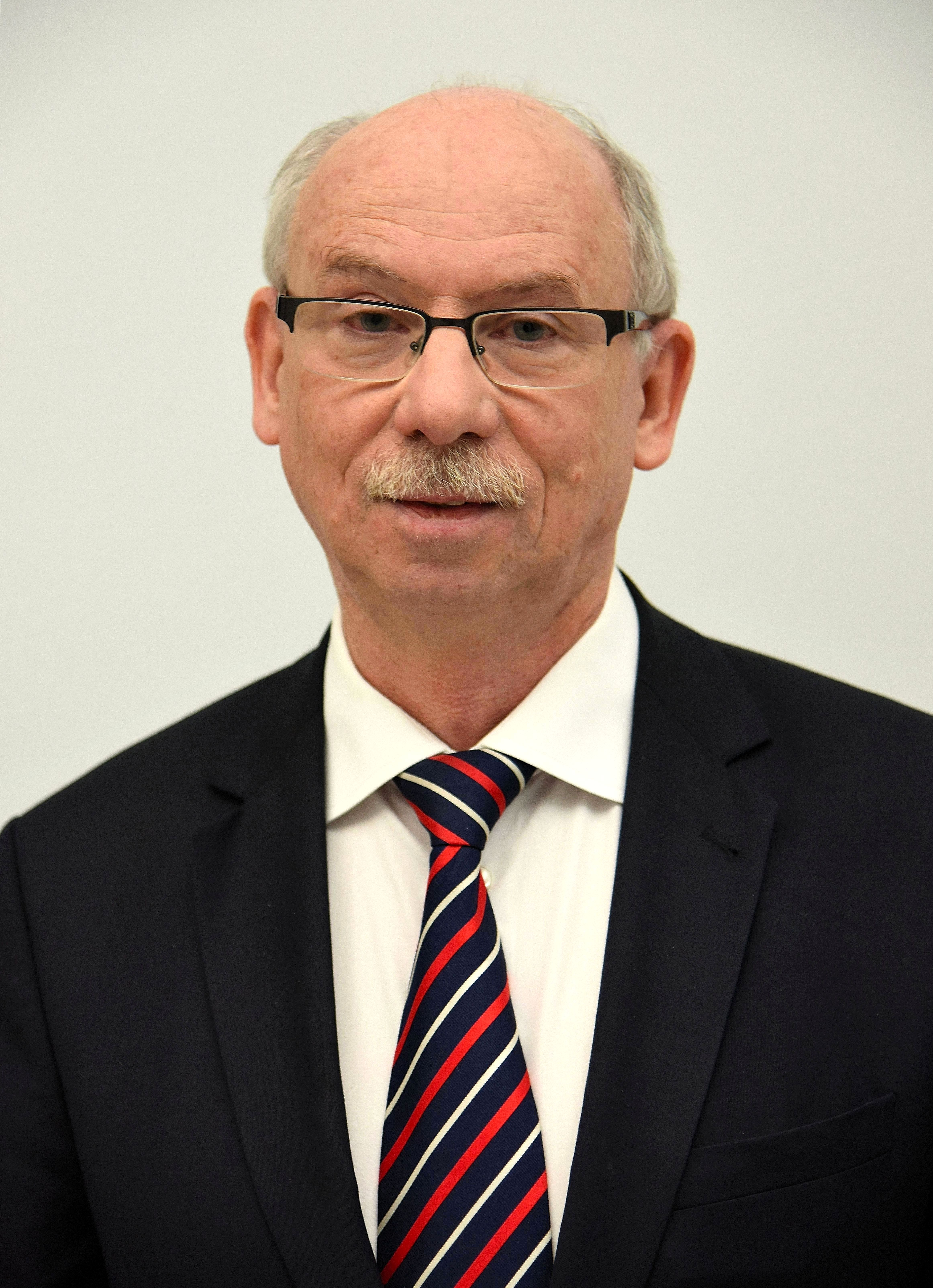 MEP Janusz Lewandowski in the Sejm